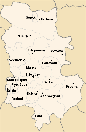 Croatian names on map of Plovdiv District (Bulgaria)